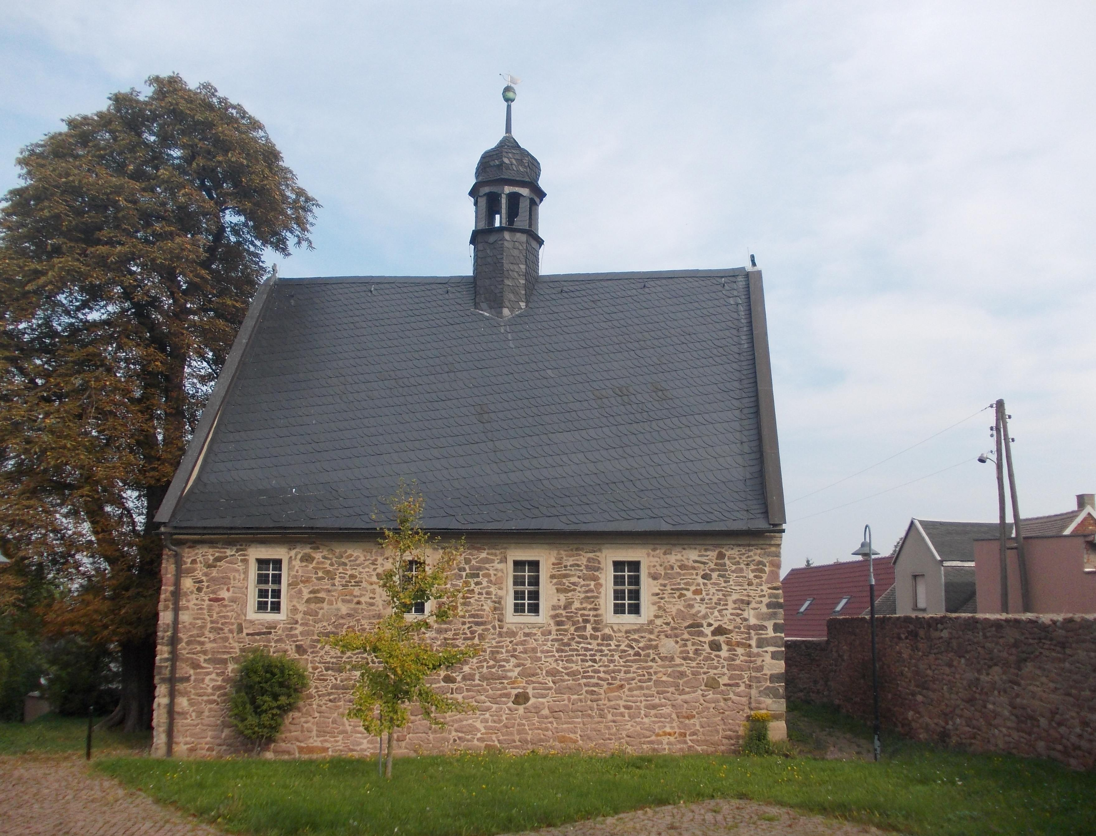 St. Cyriacus Hospital Chapel in Löbejün (Wettin-Löbejün, district: Saalekreis, Saxony-Anhalt)